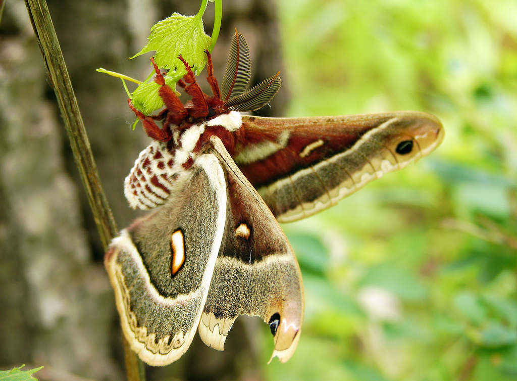 This is Hyalophora columbia, the Columbia silk moth. Found in Burleigh County, North Dakota. It's similar to a cecropia moth, and is in the same genus, but based on color and pattern, this is definitely not a cecropia.